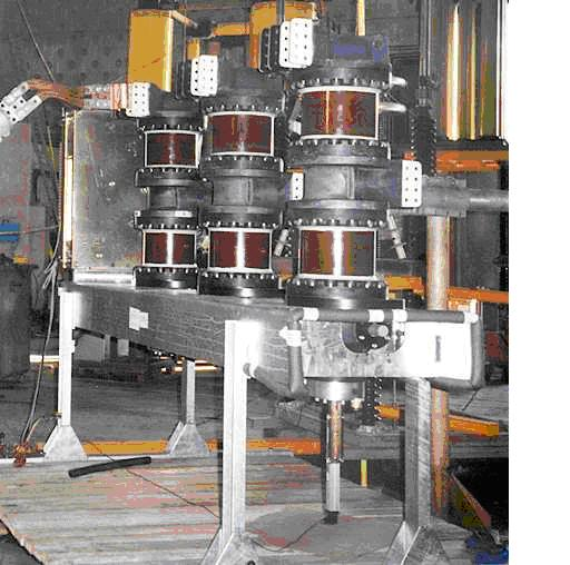 Open sulfur hexafluoride circuit breaker